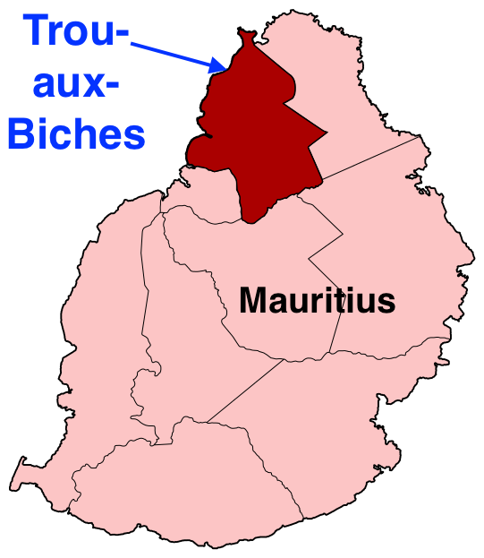 A long public beach in northern Mauritius A derivative work on File:Mauritius-Pamplemousses District.svg